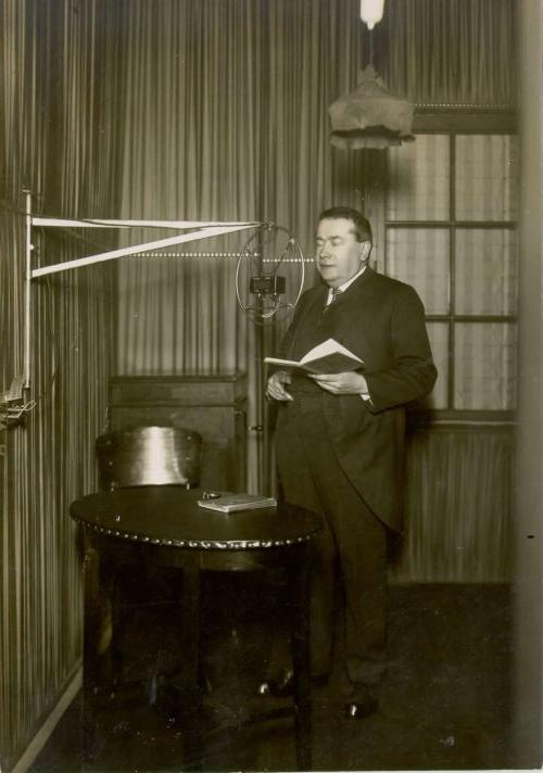 Fran Milčinski (1867-1932), Slovene writer, playwright and jurist.